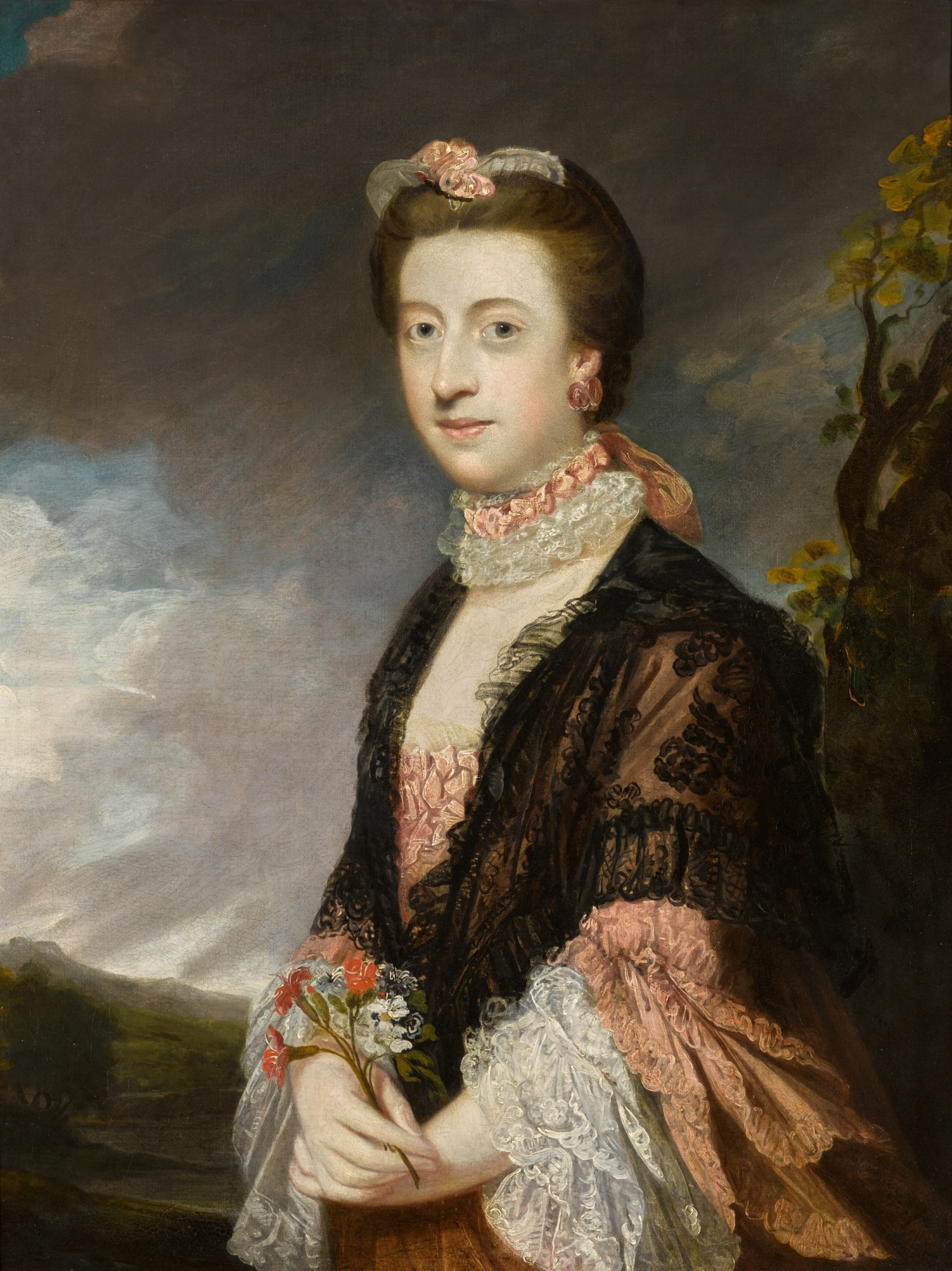 Mary Stopford (d 1810), née Powys, Countess of Courtown, half-length, wearing a pink dress, black lace shawl, and holding a spray of carnations.